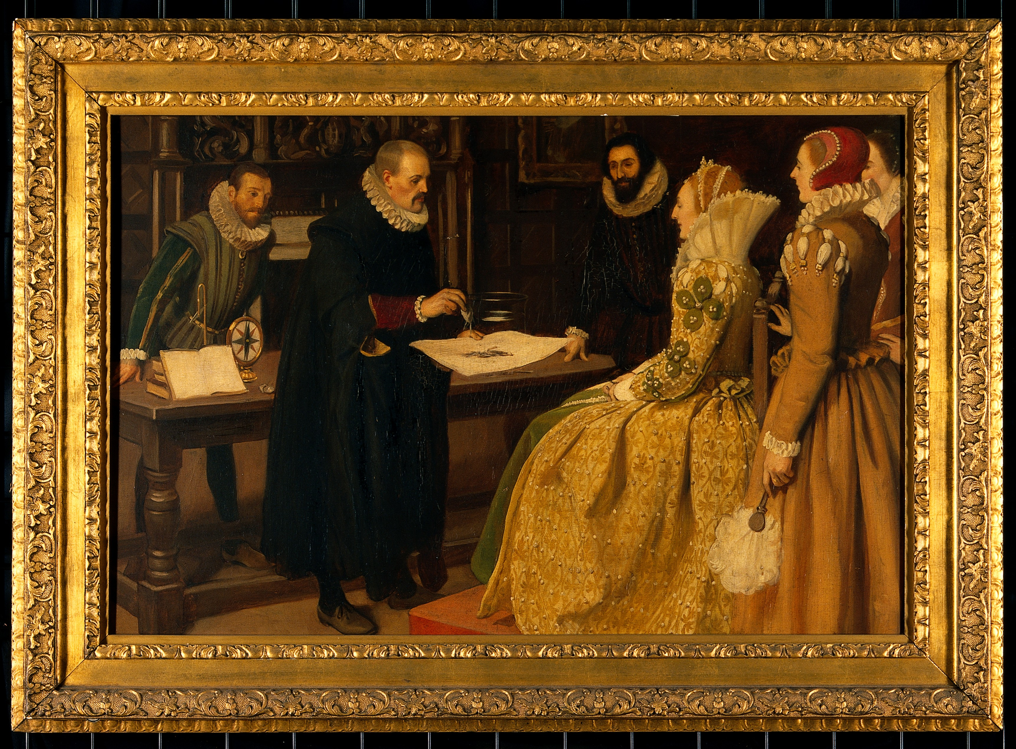 William Gilbert demonstrating the magnet before Queen Elizabeth, 1598. Oil painting by Ernest Board. Iconographic Collections Keywords: Ernest Board